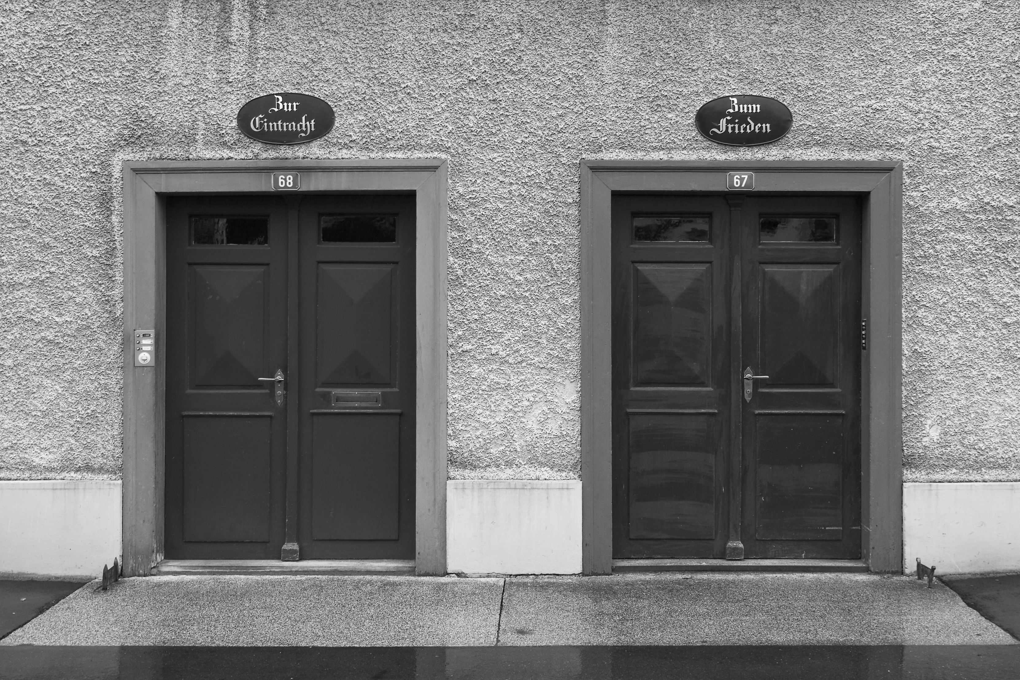 Over the left door: «At unity» over the right door: «At peace». Two doors in Bühler (Appenzell, Switzerland) testify to the ideals of a rural society.